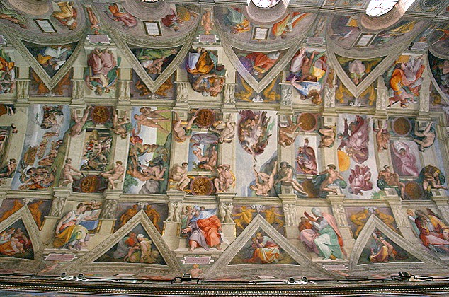 Sistene Chapel Ceiling photo: a wiki commons file, rotated to match diagram of Sistine Chapel ceiling page.